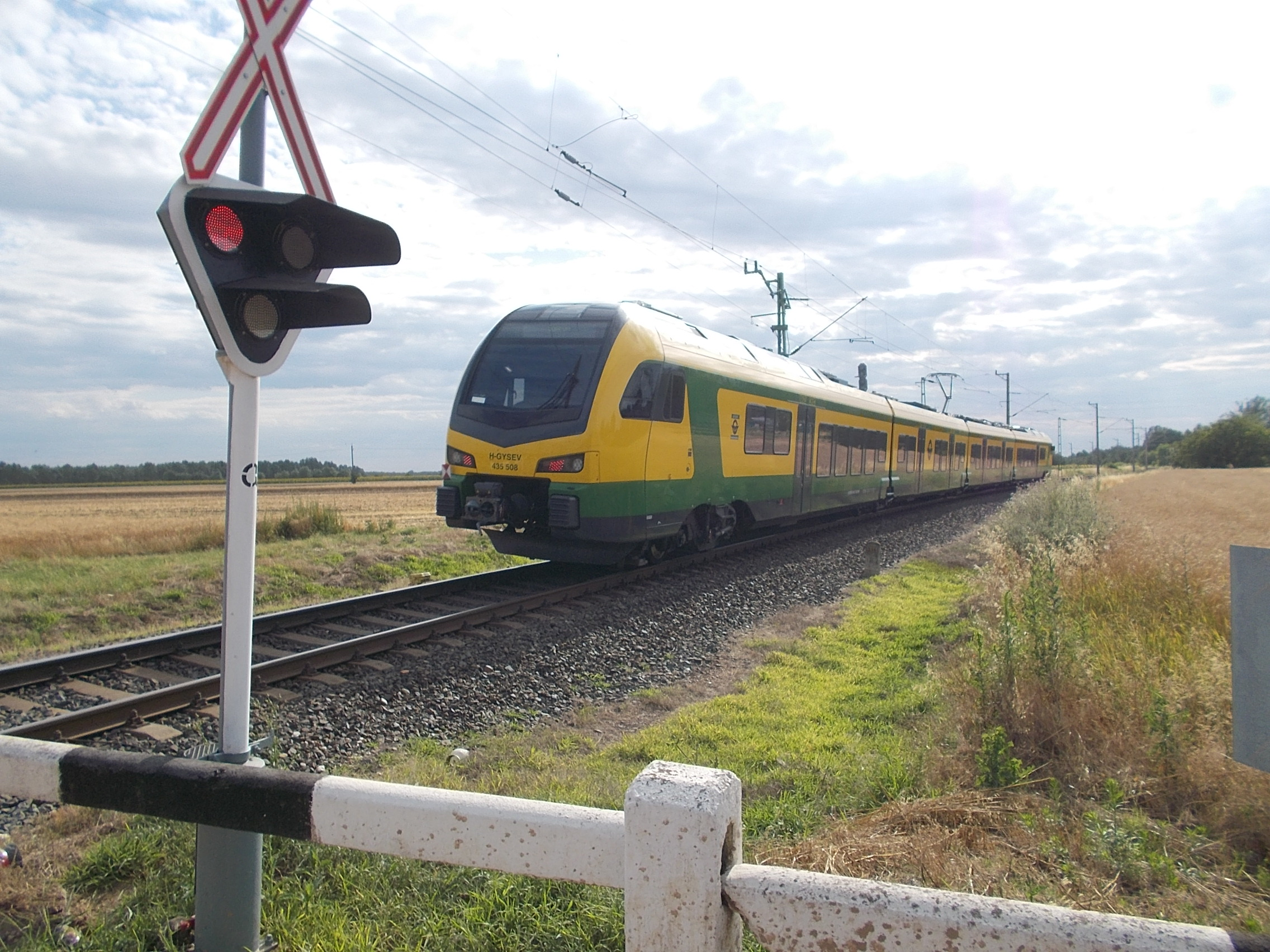 H-GYSEV 435 508 at a dirt road level crossing of Győr–Sopron railway line - close to Vasutas utca, Csorna, Győr-Moson-Sopron County, Hungary.